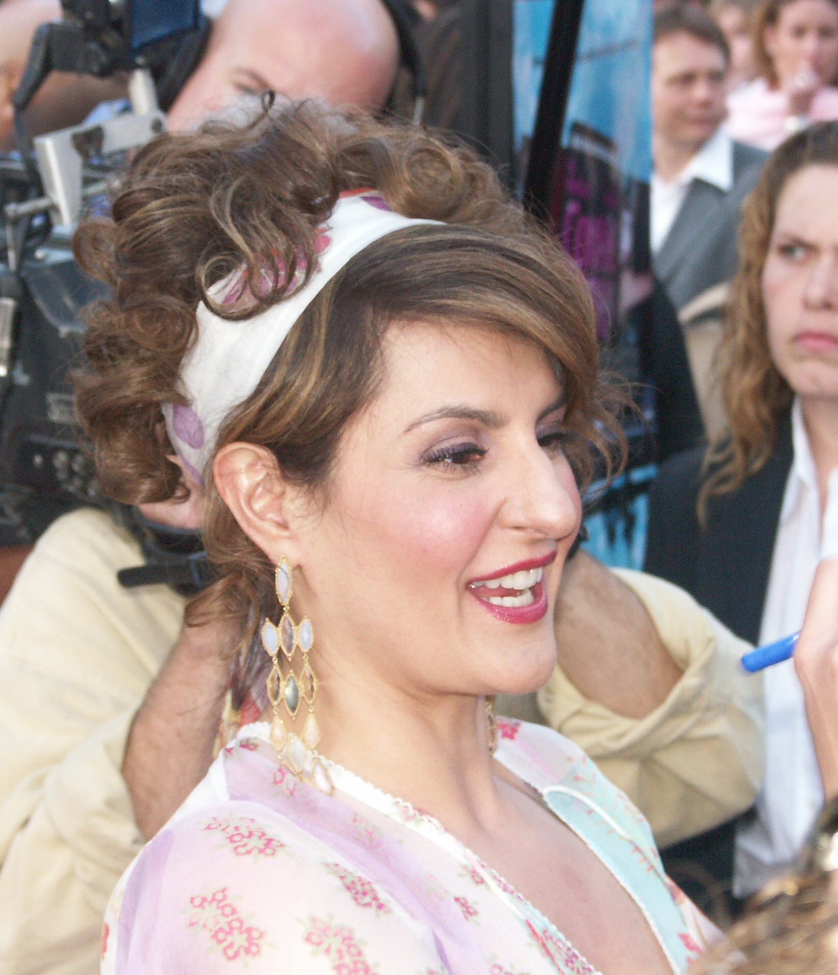 Actress Nia Vardalos at the Connie and Carla premiere on the Universal City Walk in Los Angeles, CA (2004-04-13)